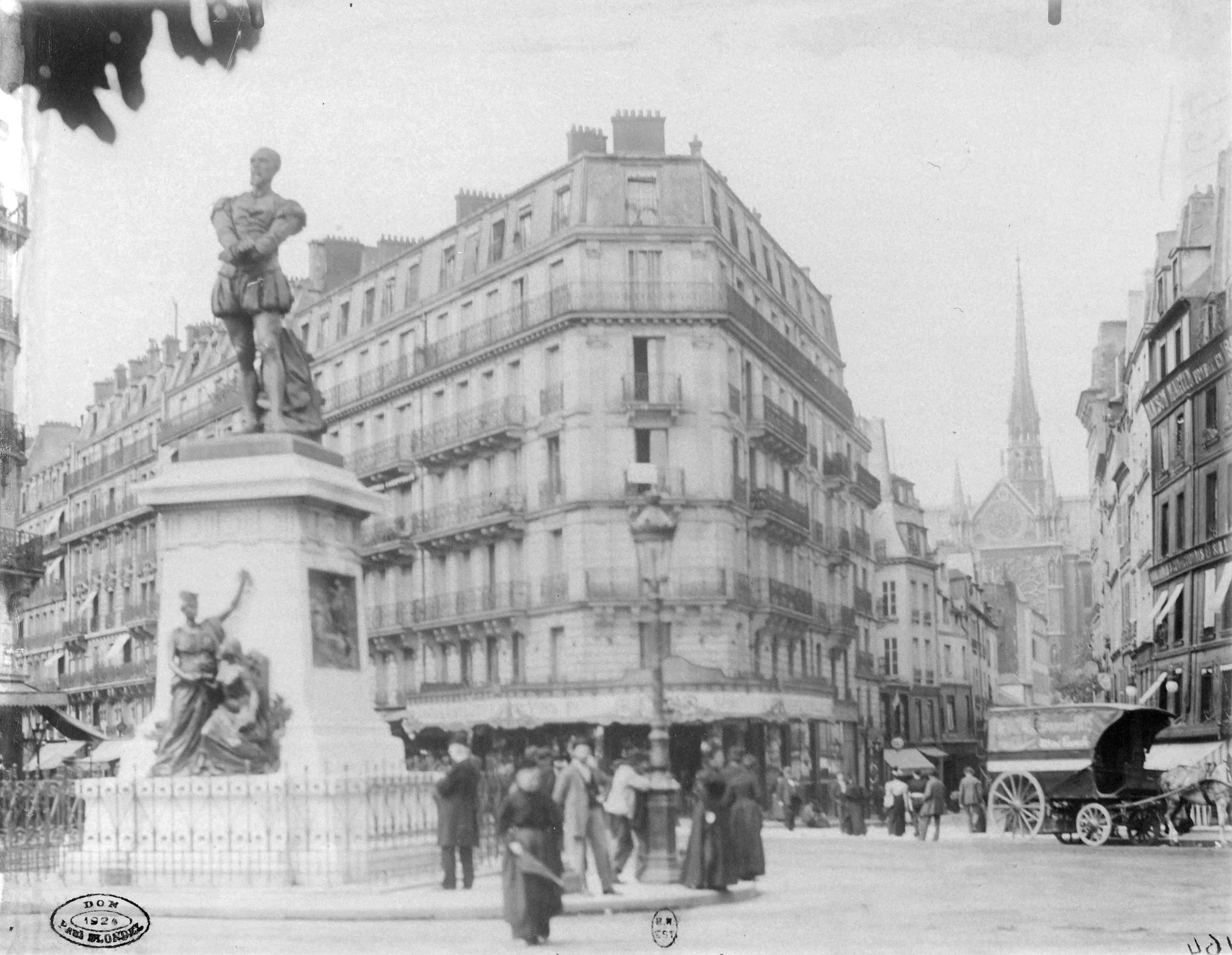 View of the place Maubert in 1899 in Paris by photographer Eugène Atget (1857-1927)